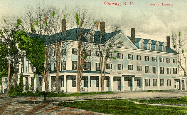 Conway House, Conway, NH; from a c. 1915 postcard.